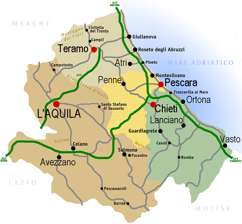 The Italian region Abruzzo Map created by user:Idéfix